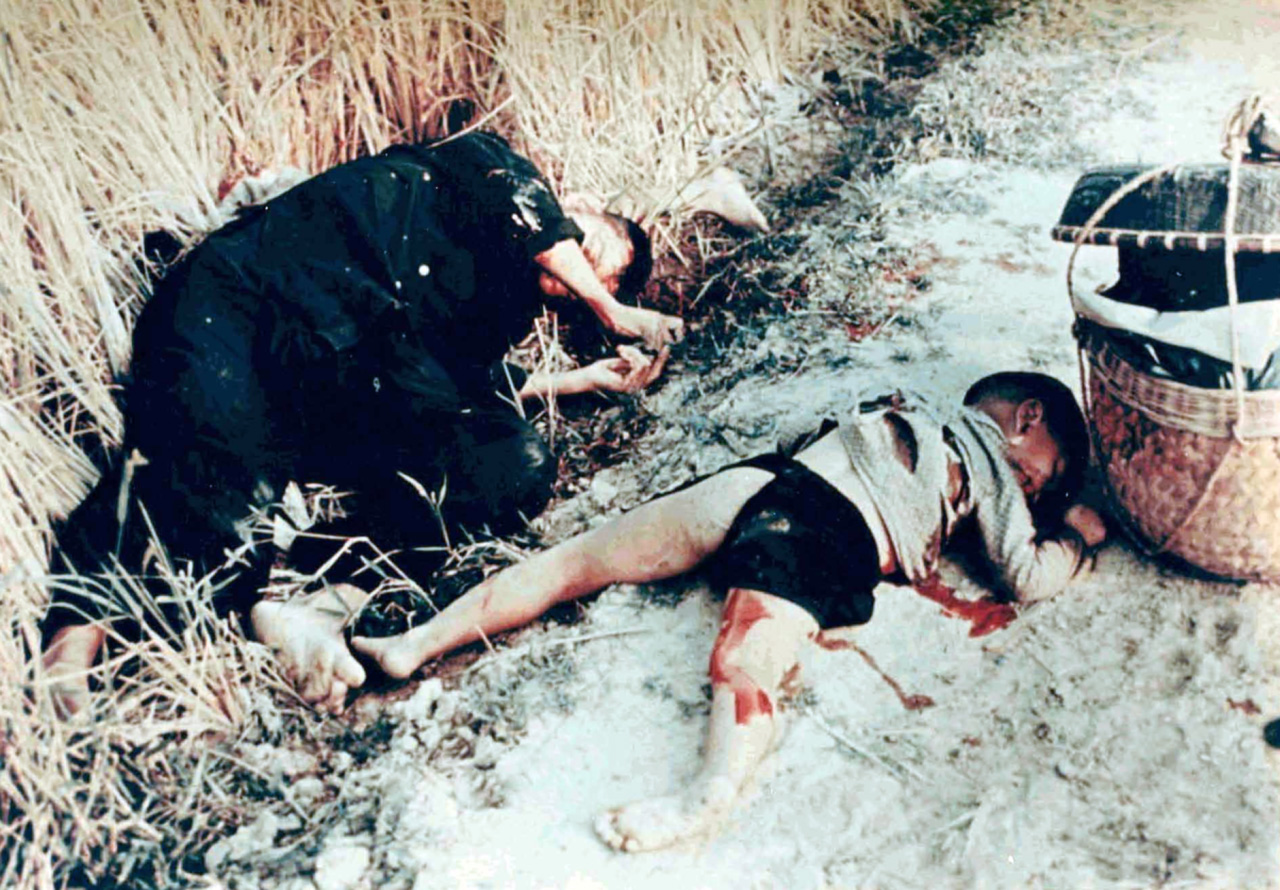 Unidentified Vietnamese man and child killed by US soldiers